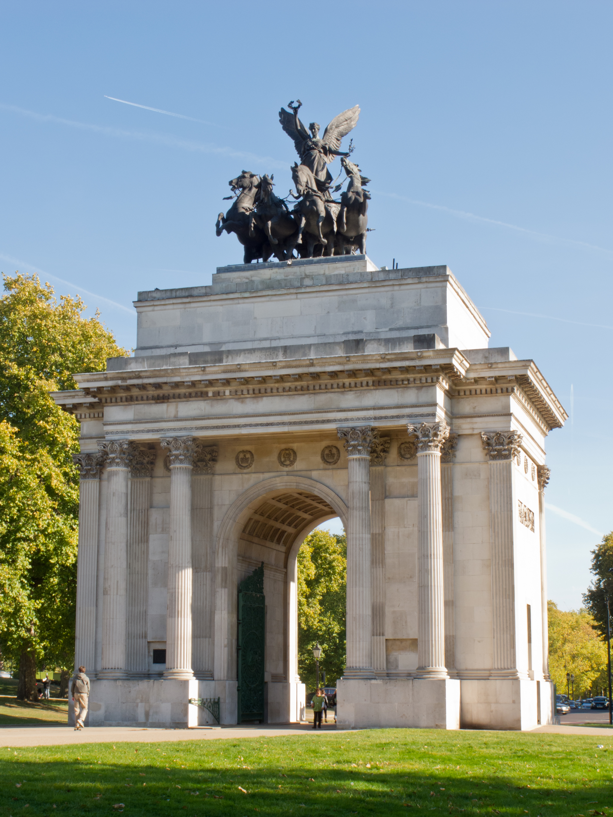 Wellington Arch, London, England.